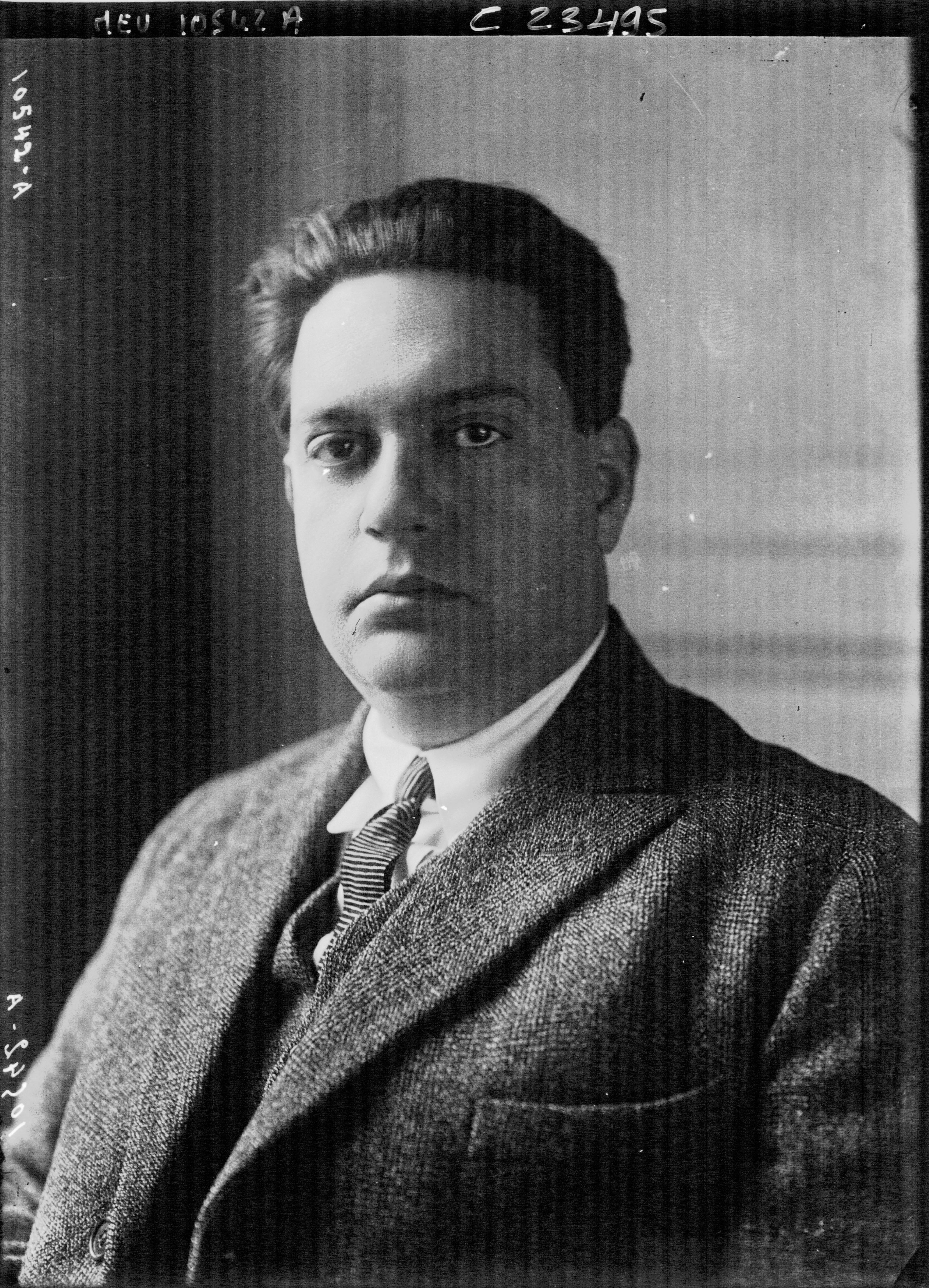 French composer Darius Milhaud (1892-1974).